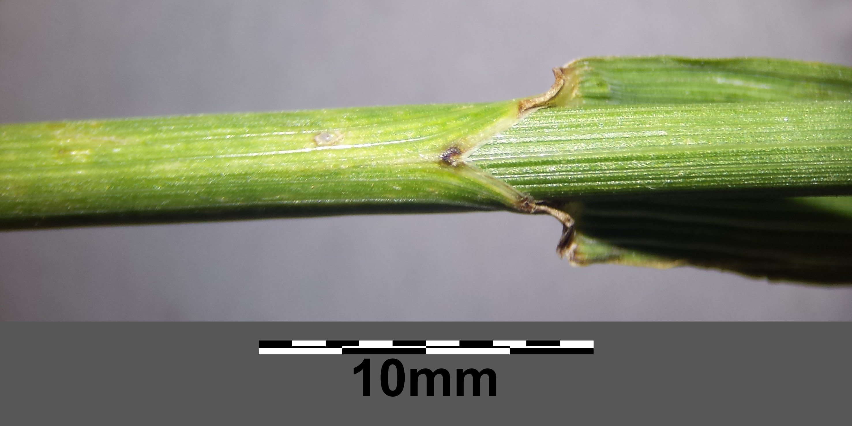 Stem with leaf sheath Taxonym: Carex sylvatica ss Fischer et al. EfÖLS 2008 ISBN 978-3-85474-187-9 Location: Michelberg, district Korneuburg, Lower Austria - ca. 330 m a.s.l. Habitat: Carpinion betuli